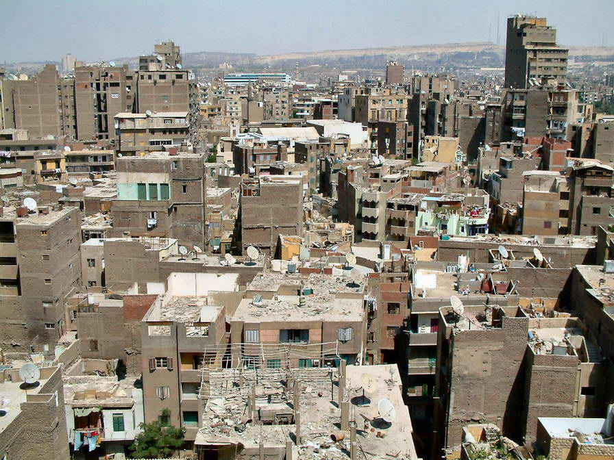 Author: Chmouel Boudjnah. Location: Cairo Description: View of the roofs on the top of cairo